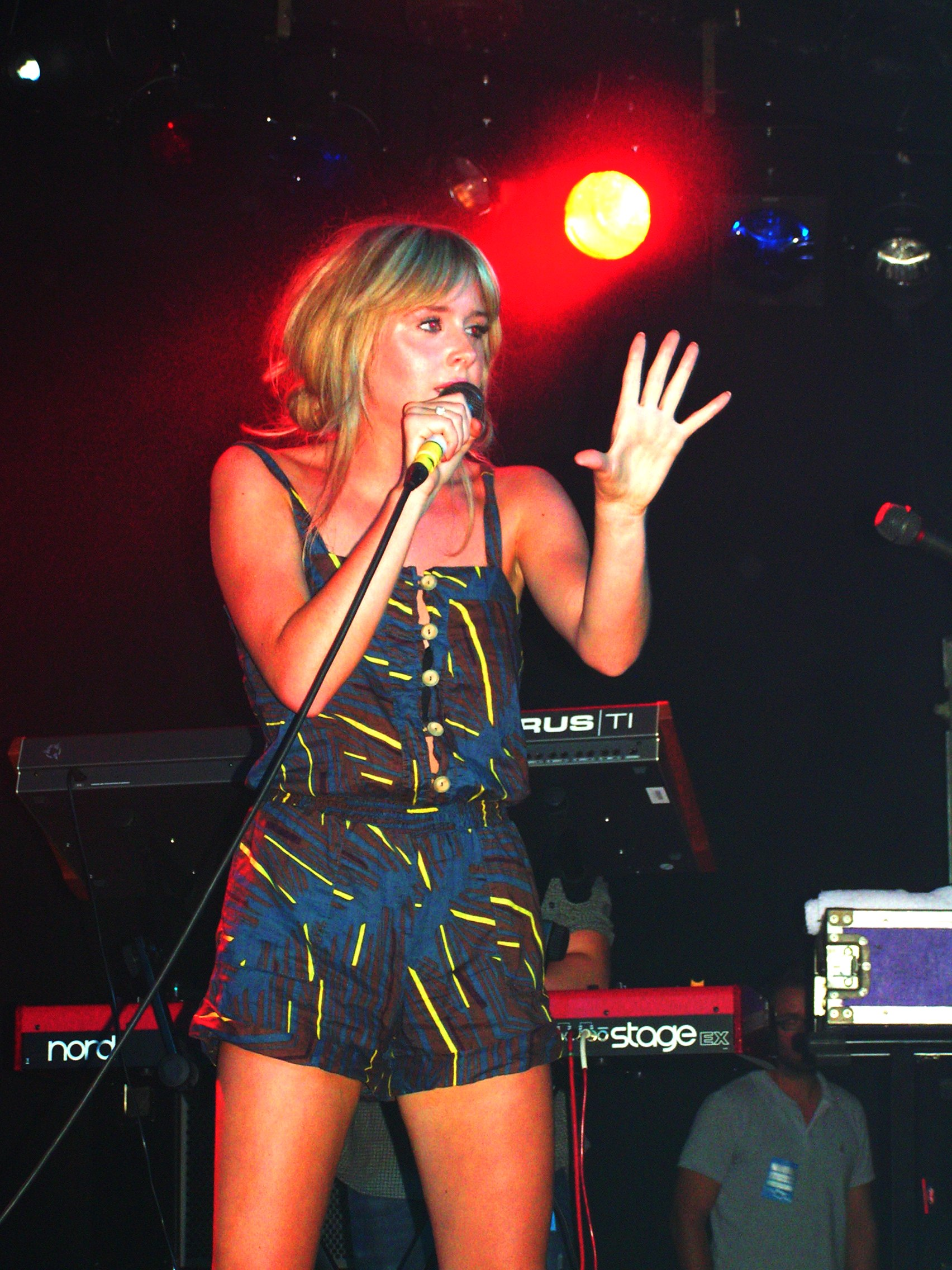 Diana Vickers performing live on 20th September 2010.